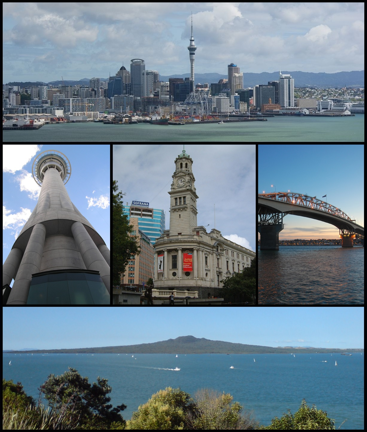 Images, from top, left to right: Top - Auckland City from Image:Aucklandqueenmary2.jpg by User talk:Arrebar Middle left - Sky Tower from Image:Sky Tower from bottom.jpg by [1] Middle center - Auckland Town Hall from File:2003.03.26 08 Town Hall Auckland New Zealand.jpg by [2] Middle right - Auckland Harbour Bridge from Image:Auckland Harbour Bridge Sunset.jpg by [3] Bottom - Rangitoto Island from Image:Rangitoto Island North Head.jpg by User:Ingolfson